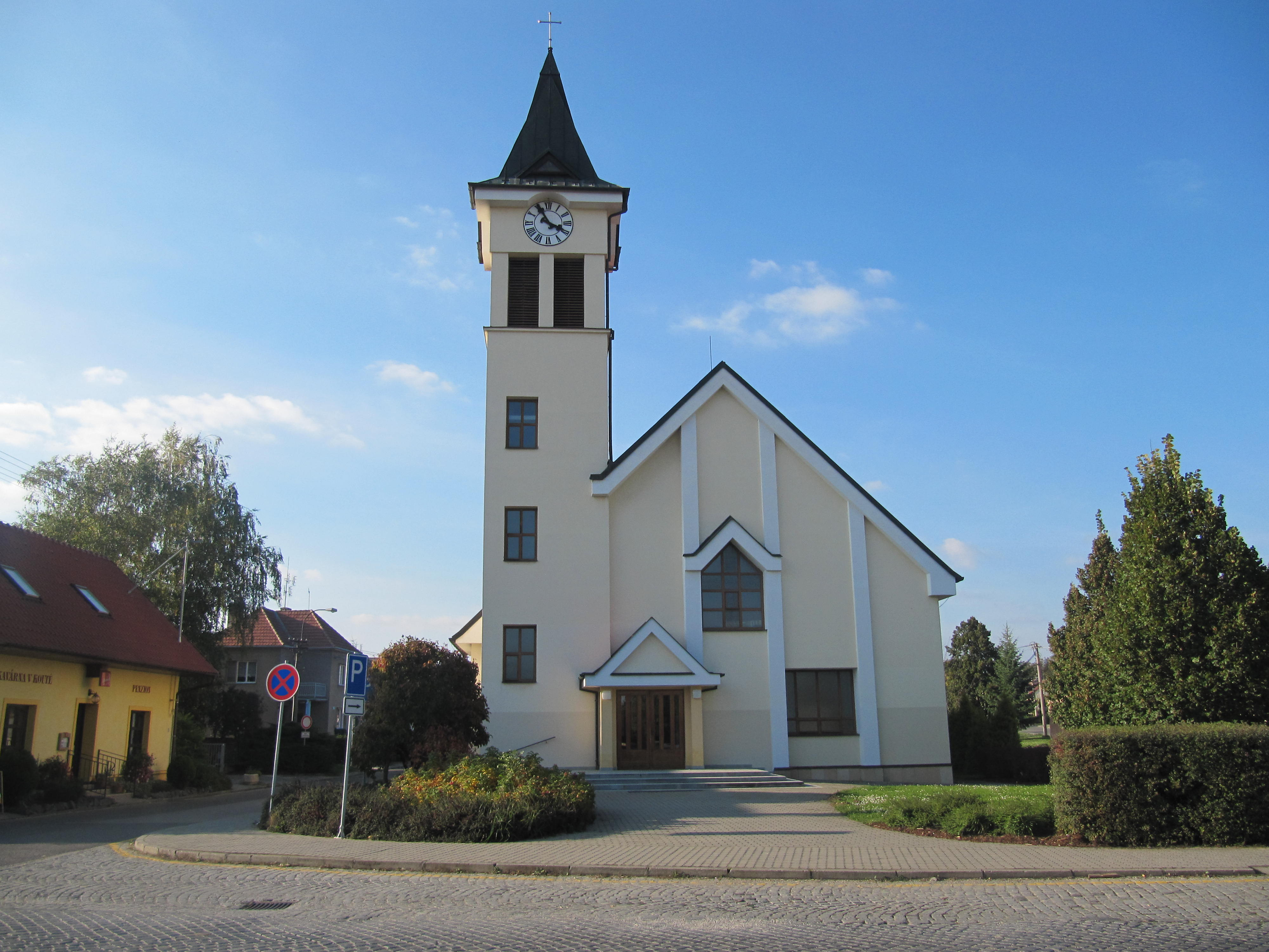 Zlechov in Uherské Hradiště District, Czech Republic. St. Anne-church.